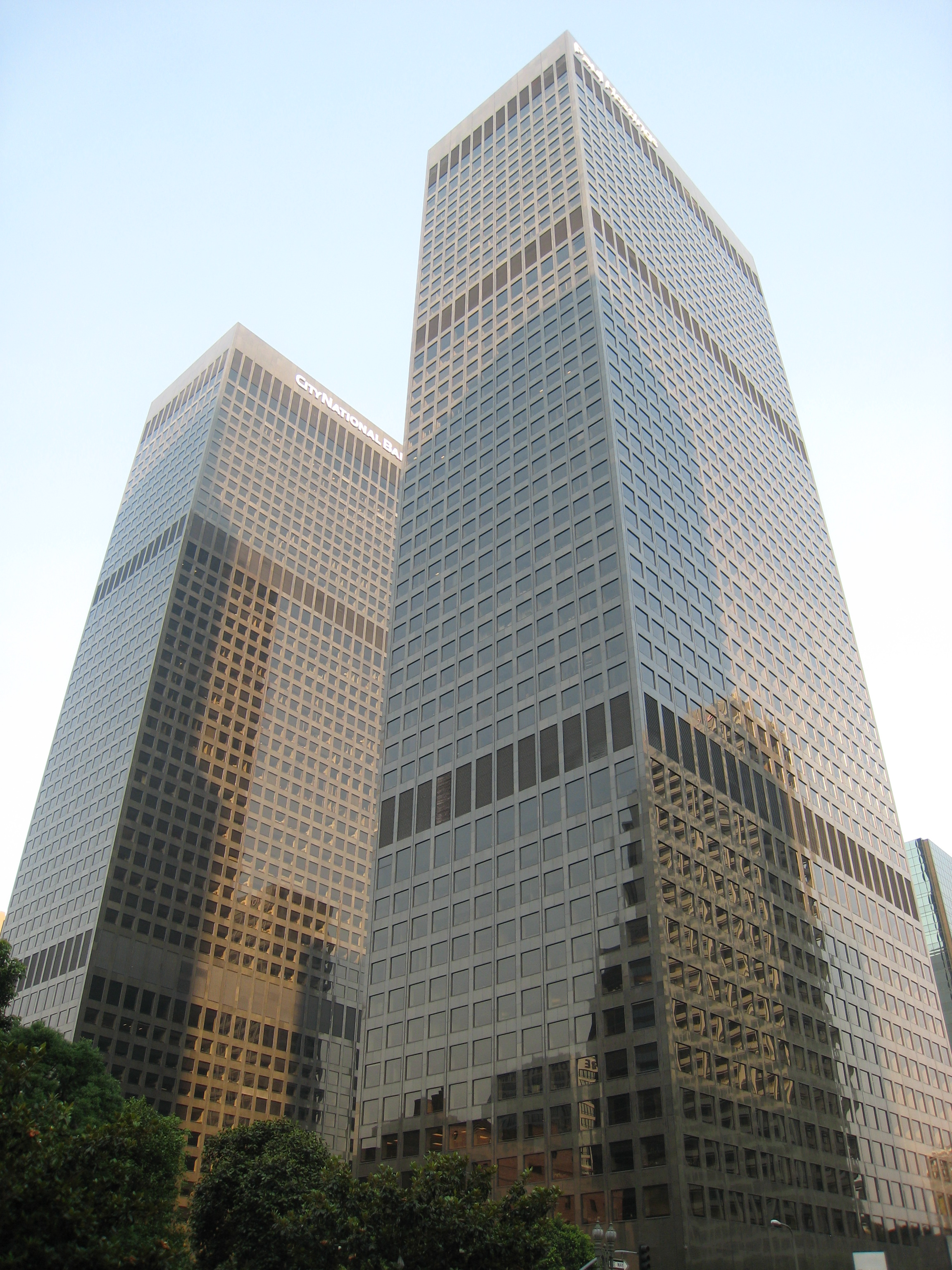 Paul Hastings & City National twin towers in Los Angeles, California